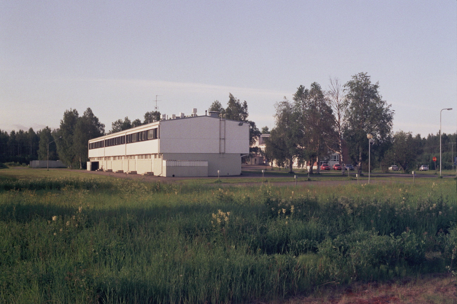 Buildings of the Keropudas psychiatric hospital in Kiviranta, Tornio, Finland.